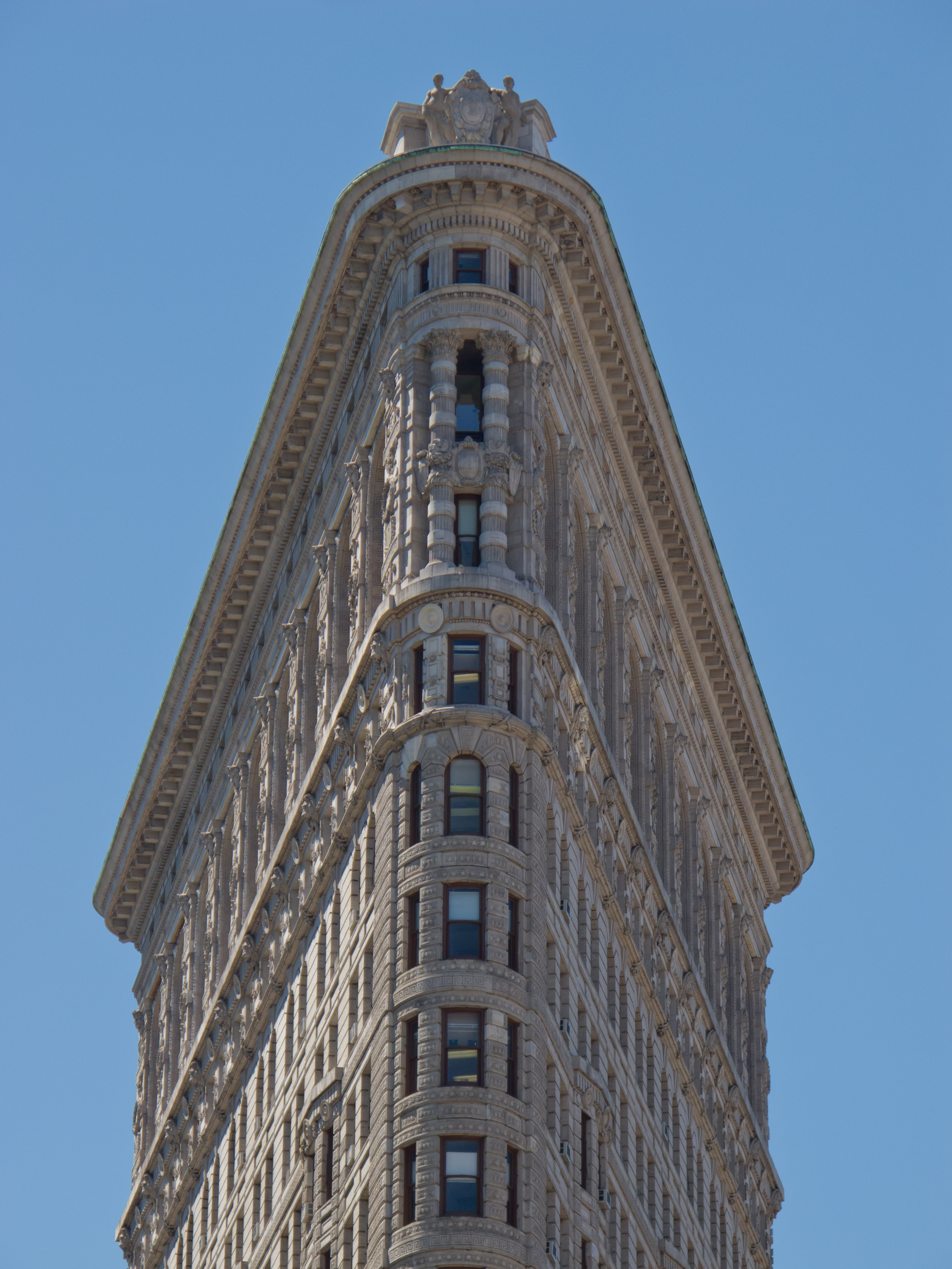 Flatiron Building, New York, United States.